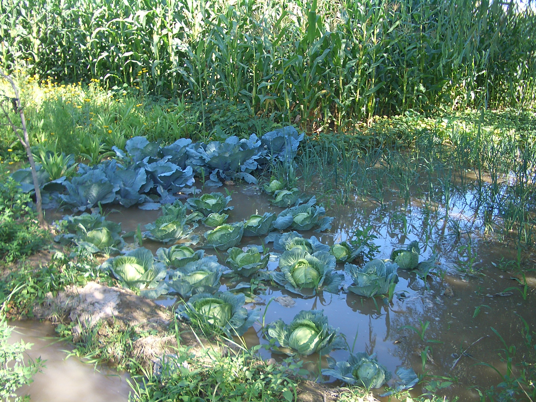 Growing vegetables such as cabbages in Linxia County, Gansu, requires irrigation. (Photo taken on the plateau above the Daxia He River, in the northeastern part of Linxia County; probably, Xihe Township).